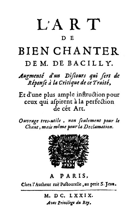 Title page of Bacilly's treatise (1679)